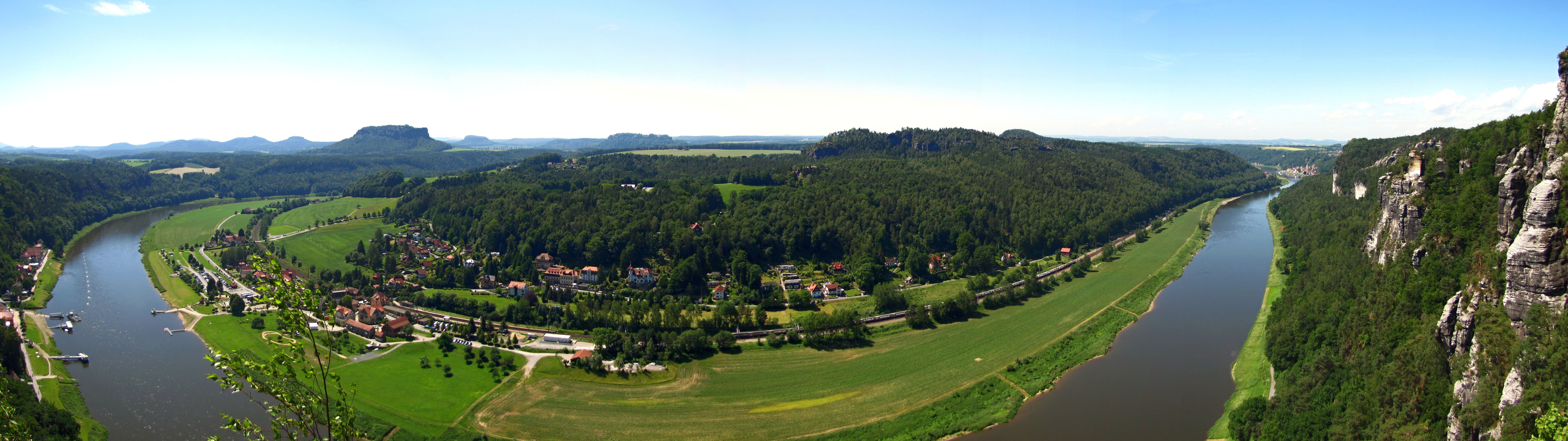 Panoramic view from the Bastei in Saxon Switzerland (Germany) over the Elbe valley